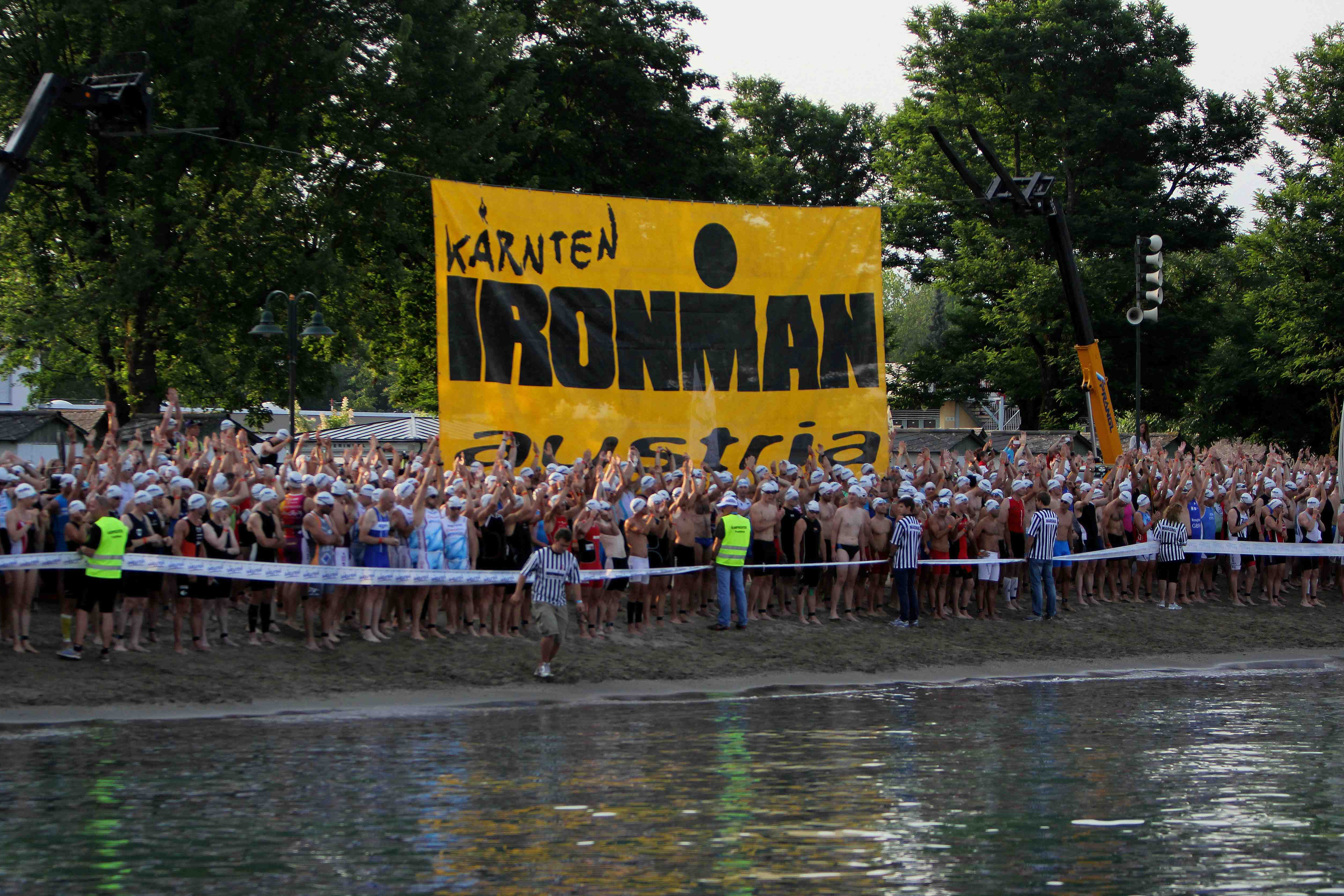 Athletes waiting for Start at Ironman Austria 2012